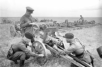 Captured Japanese guns, Khalkhyn Gol